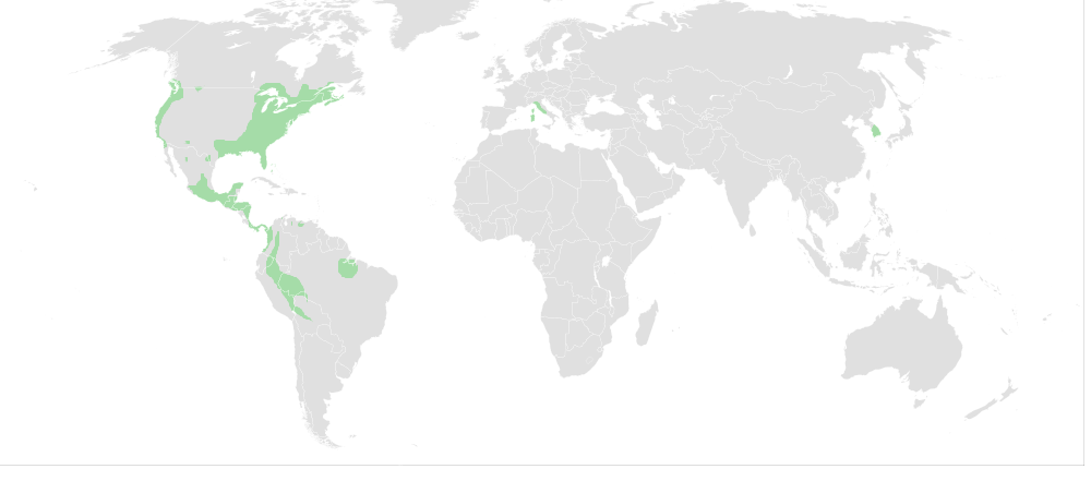 The distribution of Plethodontidae